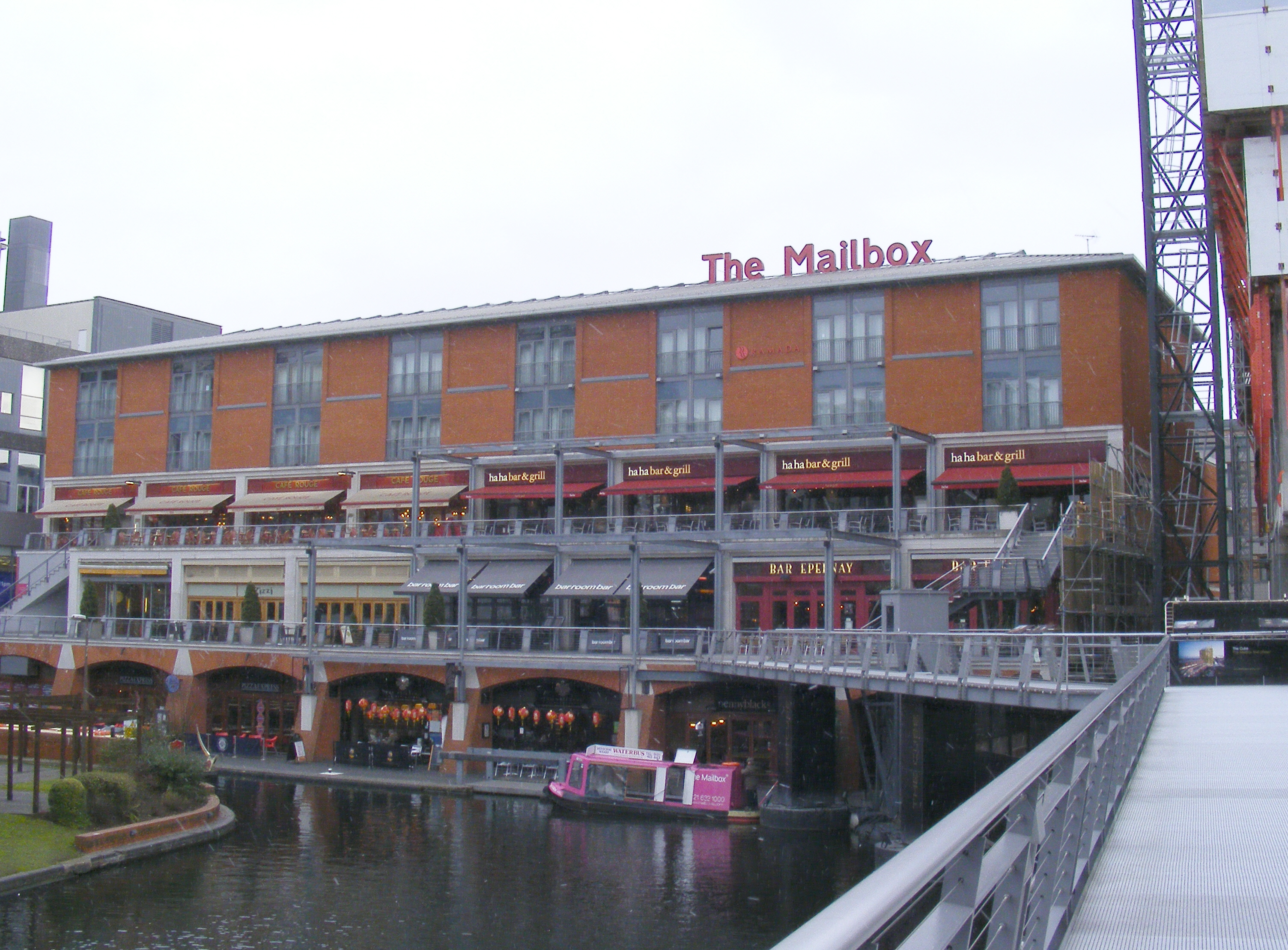 The Mailbox, Birmingham, canalside restaurants. The white streaks are the beginning of the February 2009 snow.